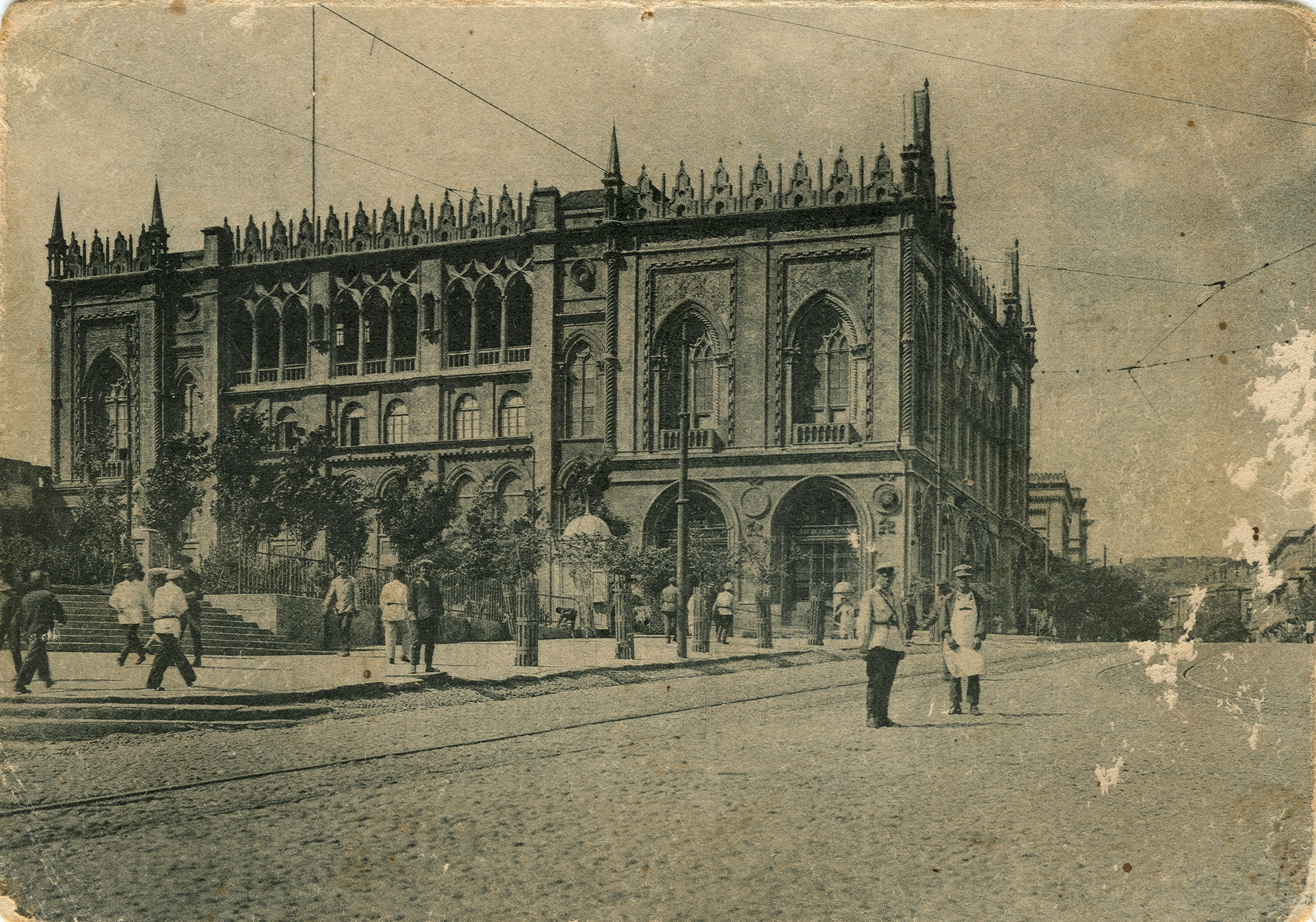 Ismailiyye building in Baku